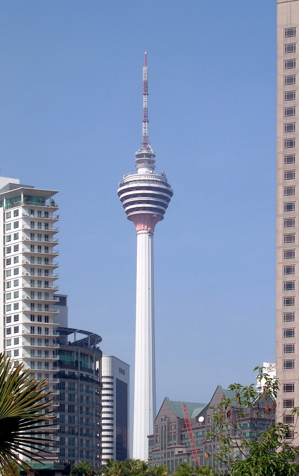 The Kuala Lumpur Tower, the fourth tallest TV tower in the world